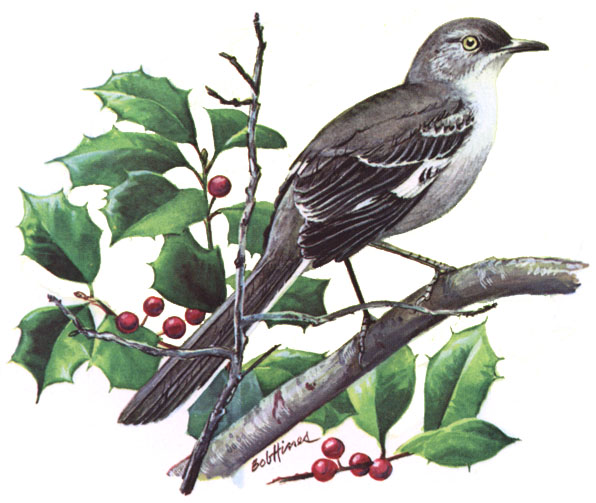 Northern Mockingbird, Mimus polyglottos, Offset reproduction of painting.